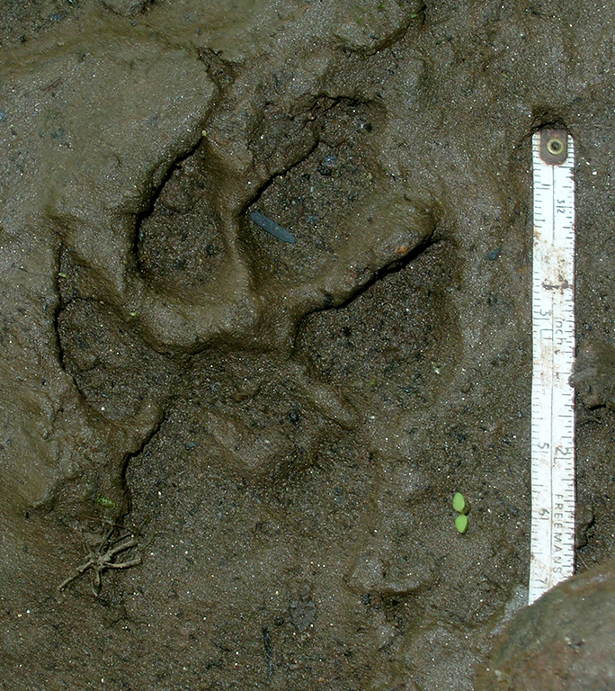 Pugmark of a Striped Hyena from Nellithurai beat, Mettupalayam range, Coimbatore forest division, Tamil Nadu, India.